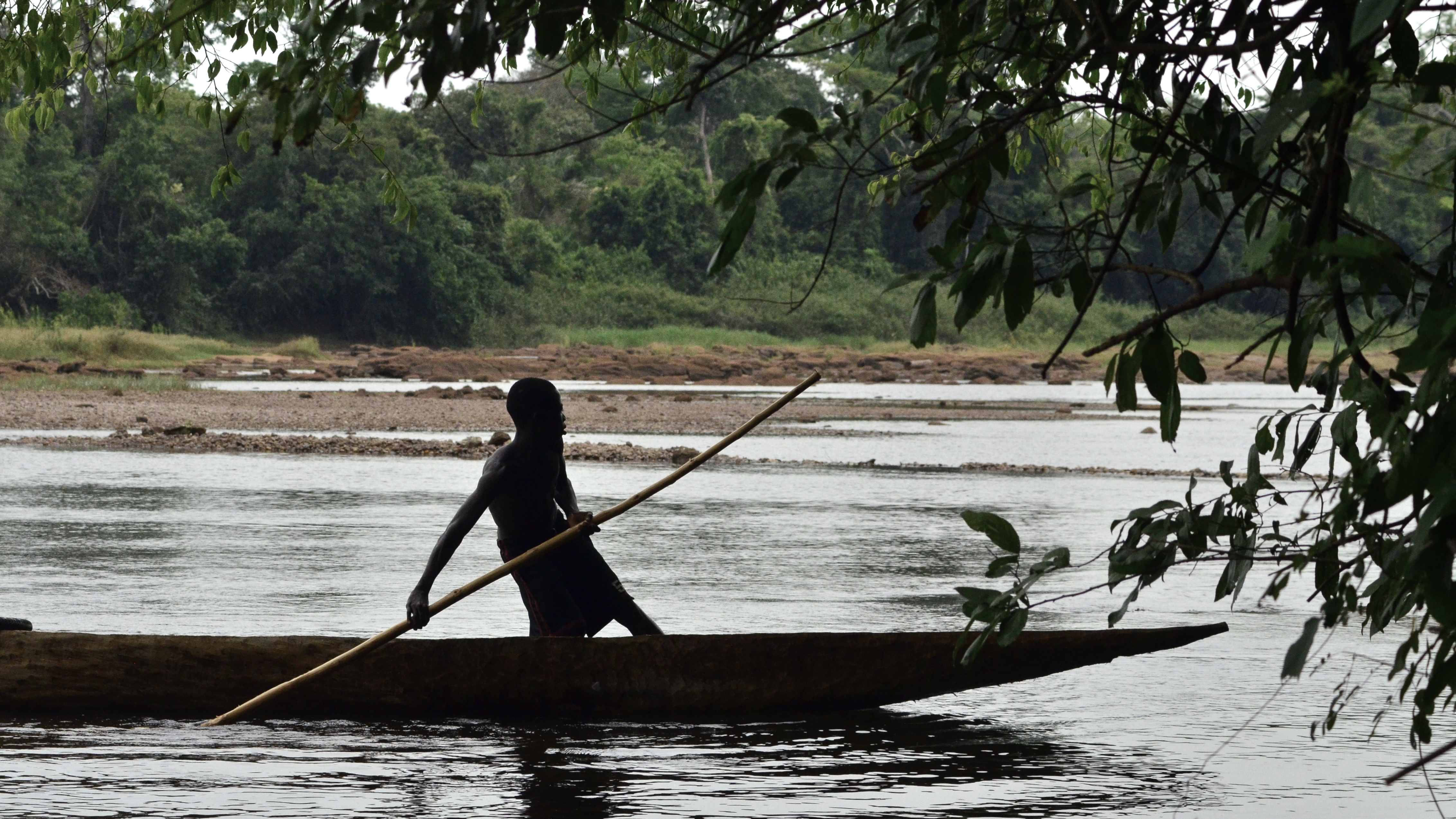 Where the Oubangui becomes Mbomou river, drawing the border between CAR and DRC, people trade goods from Ndu to Bangassou This is an image with the theme "Africa on the Move or Transport" from: Central African Republic